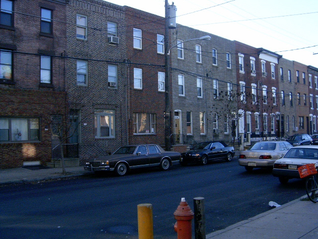 I took this photo of rowhouses in South Philadelphia, PA, USA, in mid-December 2004